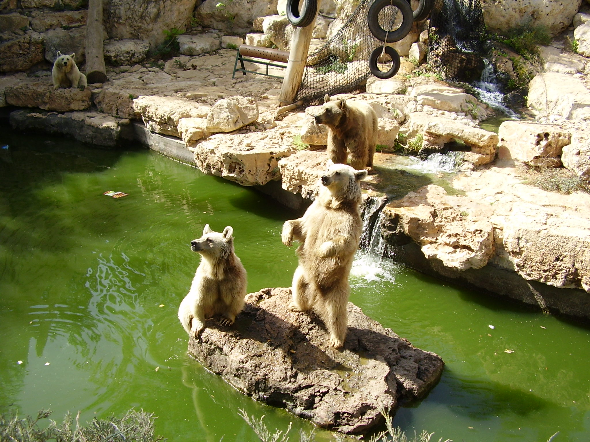 syrian brown bears in jerusalem biblical zoo